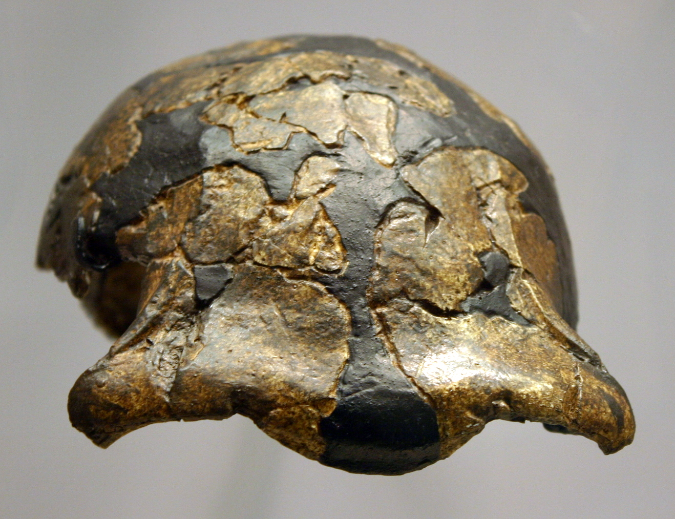 Taken at the David H. Koch Hall of Human Origins at the Smithsonian Natural History Museum.